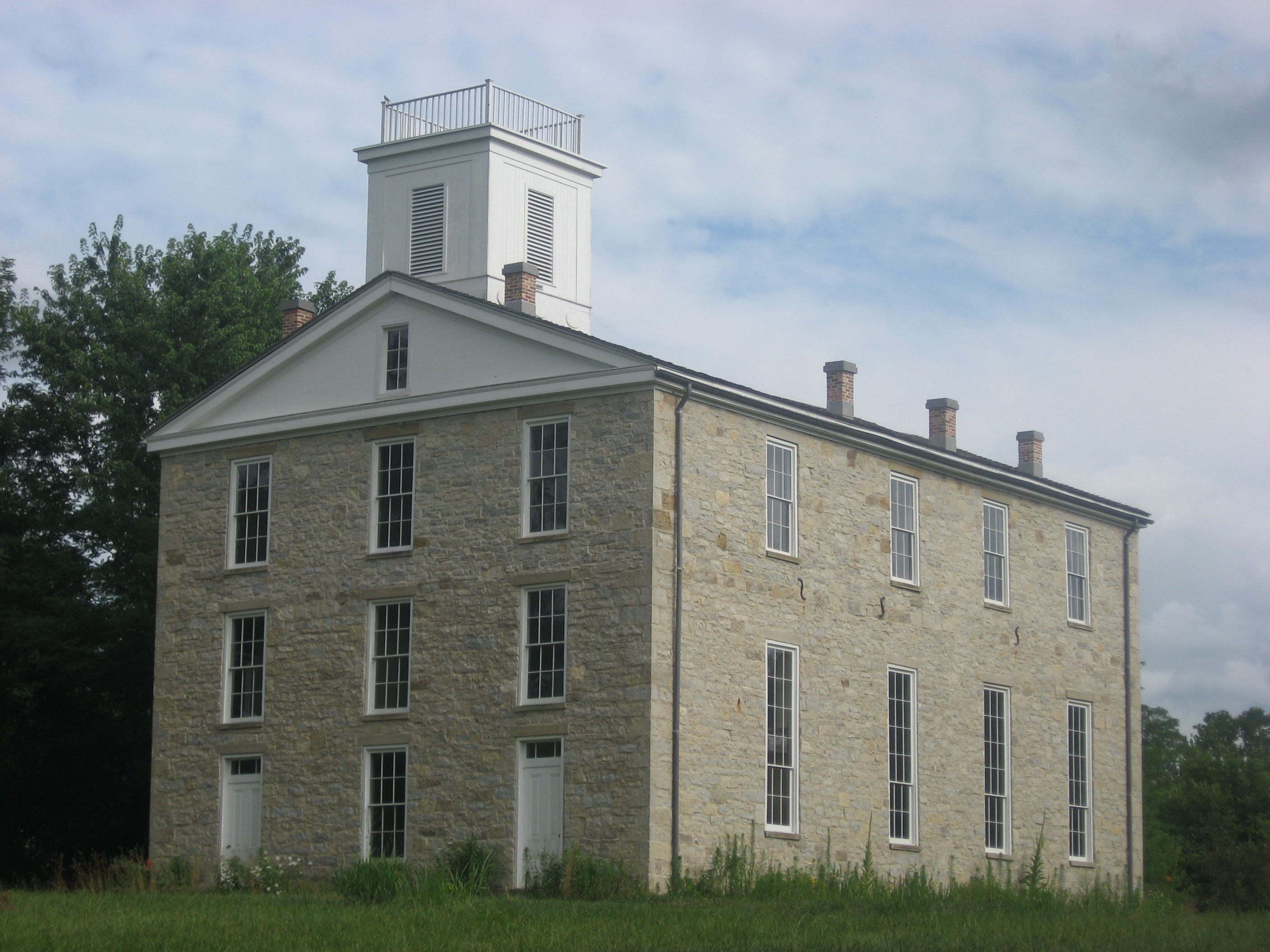 Front and western side of the surviving main building from Eleutherian College, located at 6927 State Road 250 at Lancaster in Lancaster Township, Jefferson County, Indiana, United States. Built in 1856, the building was used as a public school and community center after the college's closure in the 1880s. Now a museum, it has been declared a National Historic Landmark.